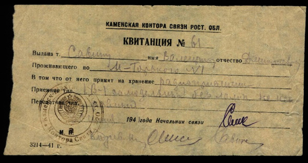 Translation: Kamensk Communications Office, Rostov Region RECEIPT #61 Issued to comrade Savin Valentin Dmitrievich Lived at 1, Maxim Gorky St. As evidence that he has deposited for storage radio receiver Receiver type: 1-V-1, homebrew, without tubes, non-working Transmitter type: Date: June 30, 1941 Communications Director: (signup)